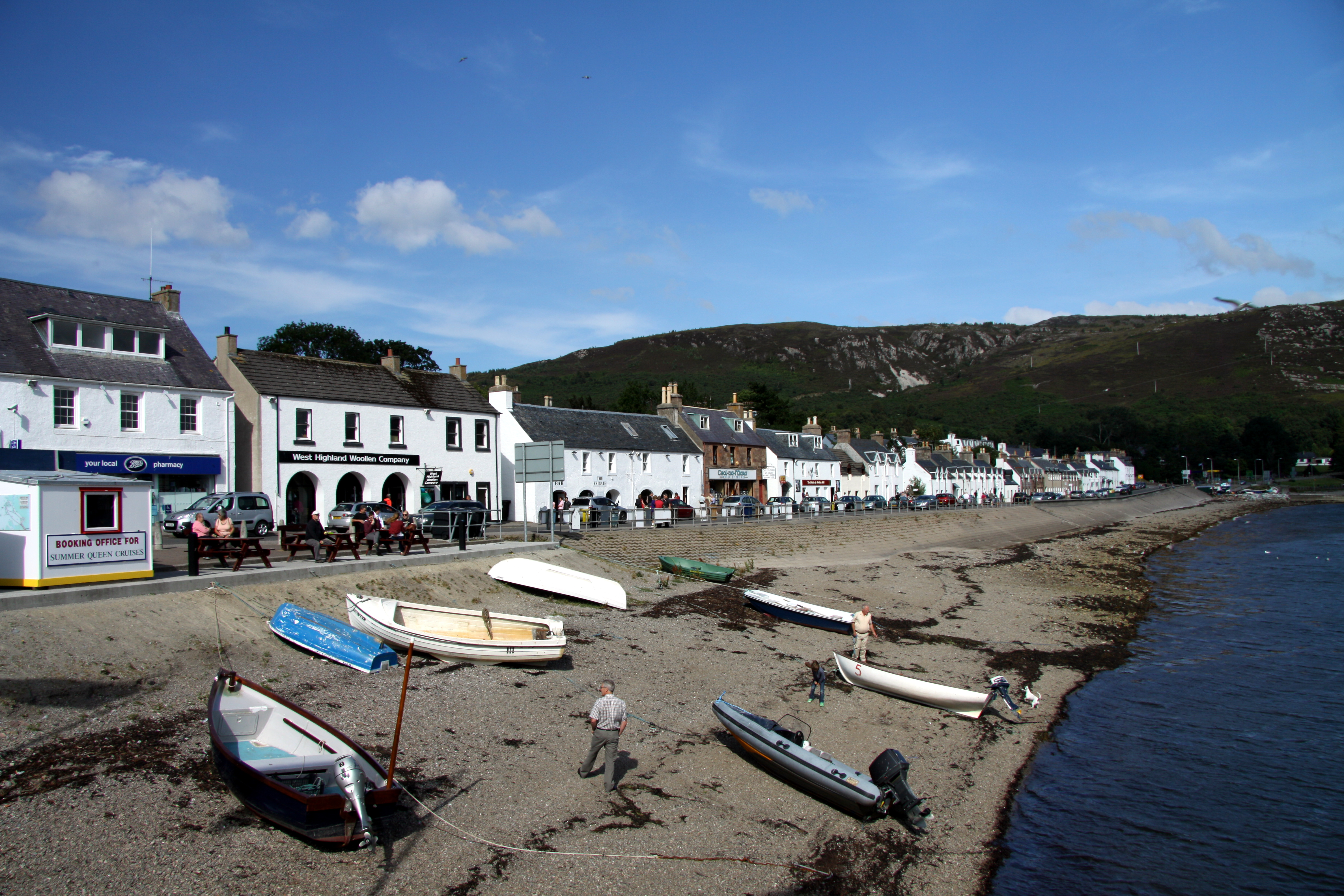 Ullapool, is a small town of around 1,300 inhabitants in Ross and Cromarty, Highland, Scotland.